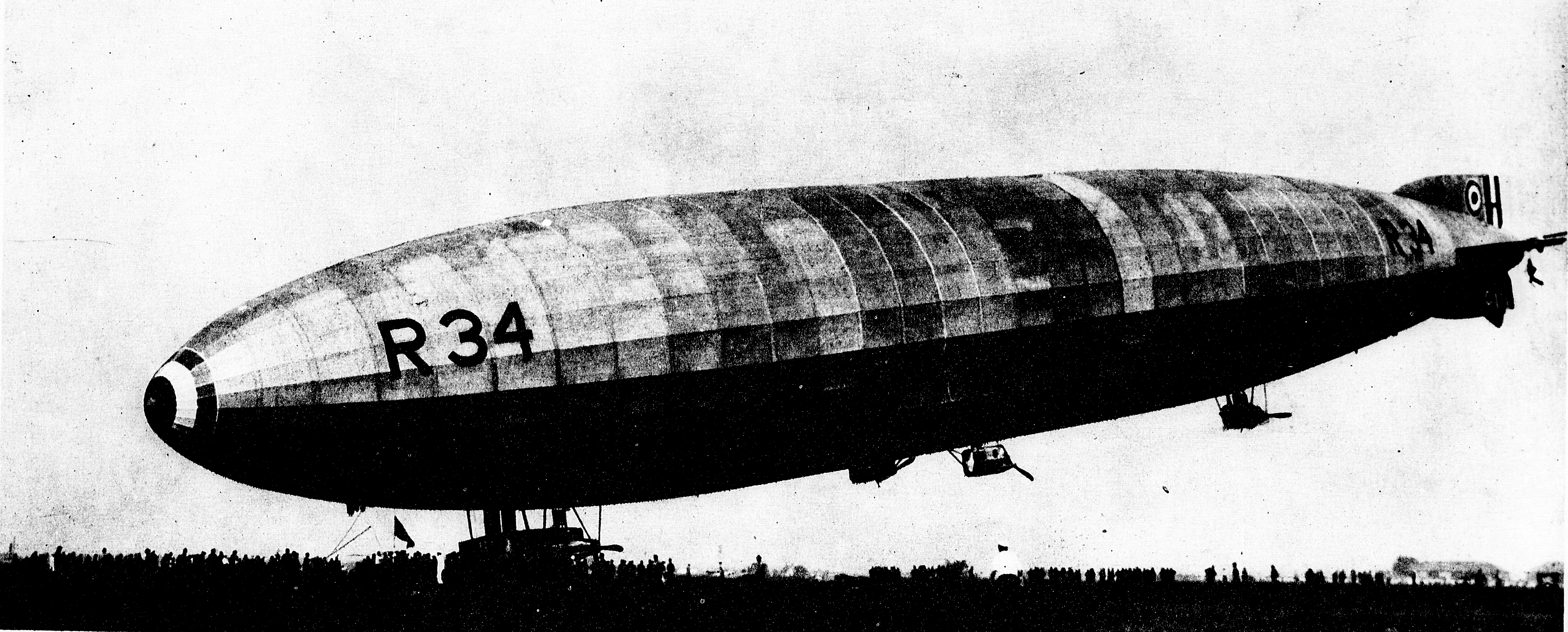 Original caption: Photographed just as her nose touched the ground at Mineola last Sunday. The World's largest dirigible (67 ft. long), the British R-34, completes the longest air flight in history, covering 3,200 miles from Scotland to New York against severe weather conditions in exactly 4 1/2 days. .. the R-34 lifts over 112,000 lbs., including a crew of thirty.